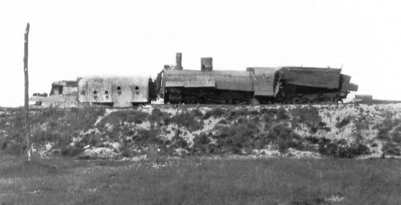 Destroyed Hunhuz armoured train, leftsight.